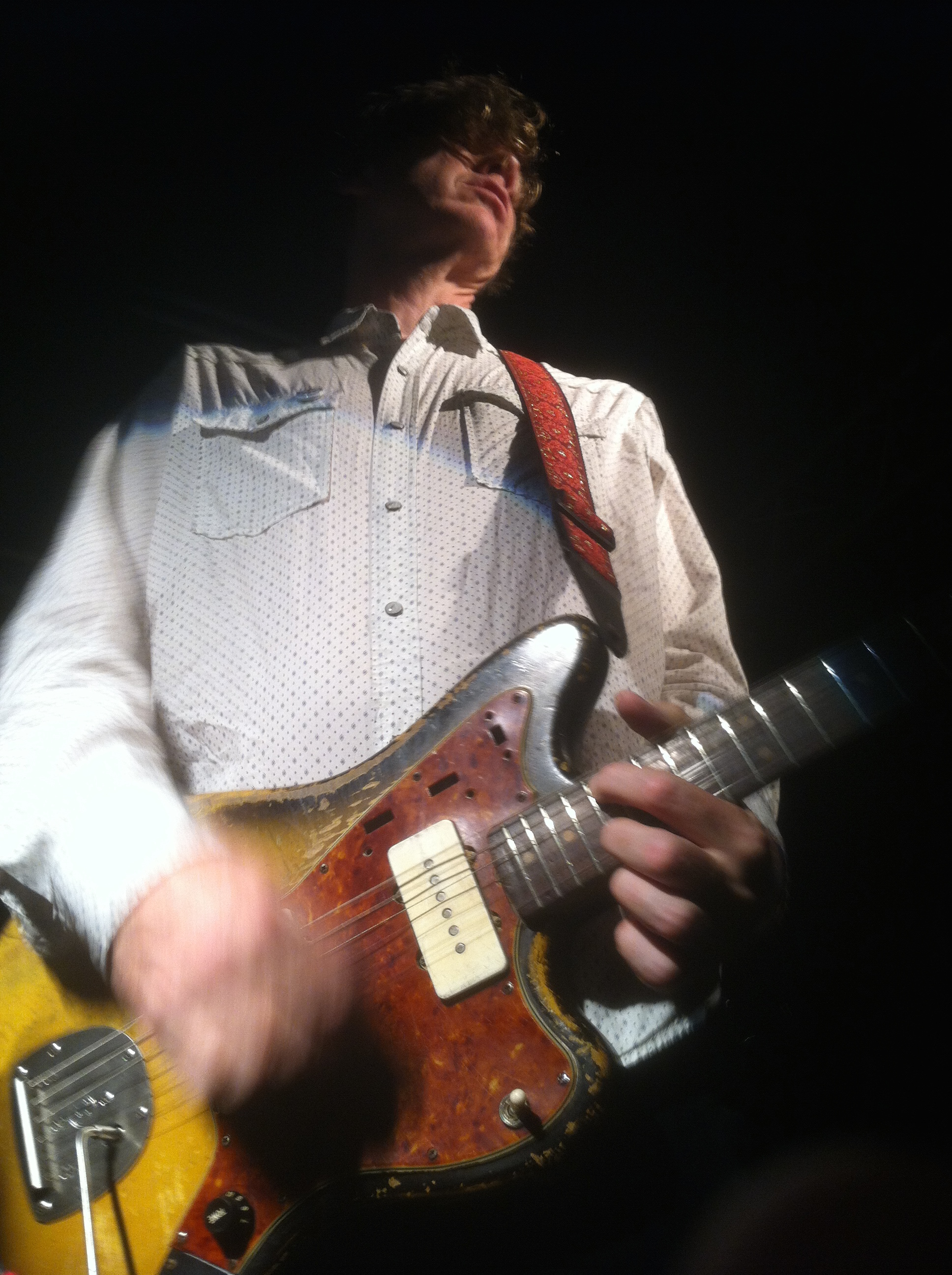 Thurston Moore performing in CT in 2014.